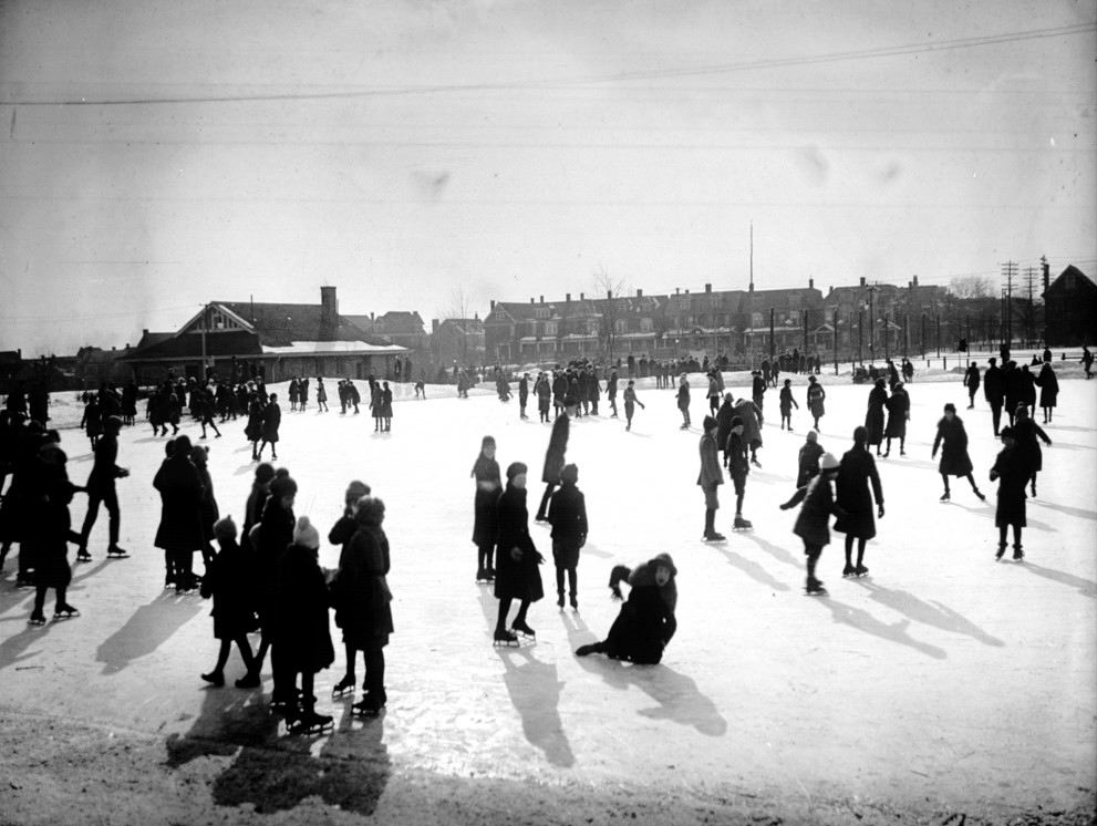 Skating in Withrow Park in 1923. Logan Avenue in background.